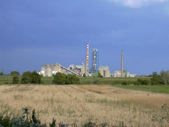 Čížkovice cement factory as seen from road between Čížkovice a Sulejovice.